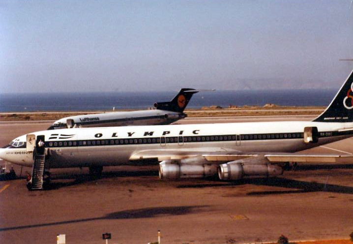 Aircraft of Olympic Airlines and Lufthansa on the apron of the airport of Heraklion, Crete, Greece, 1985